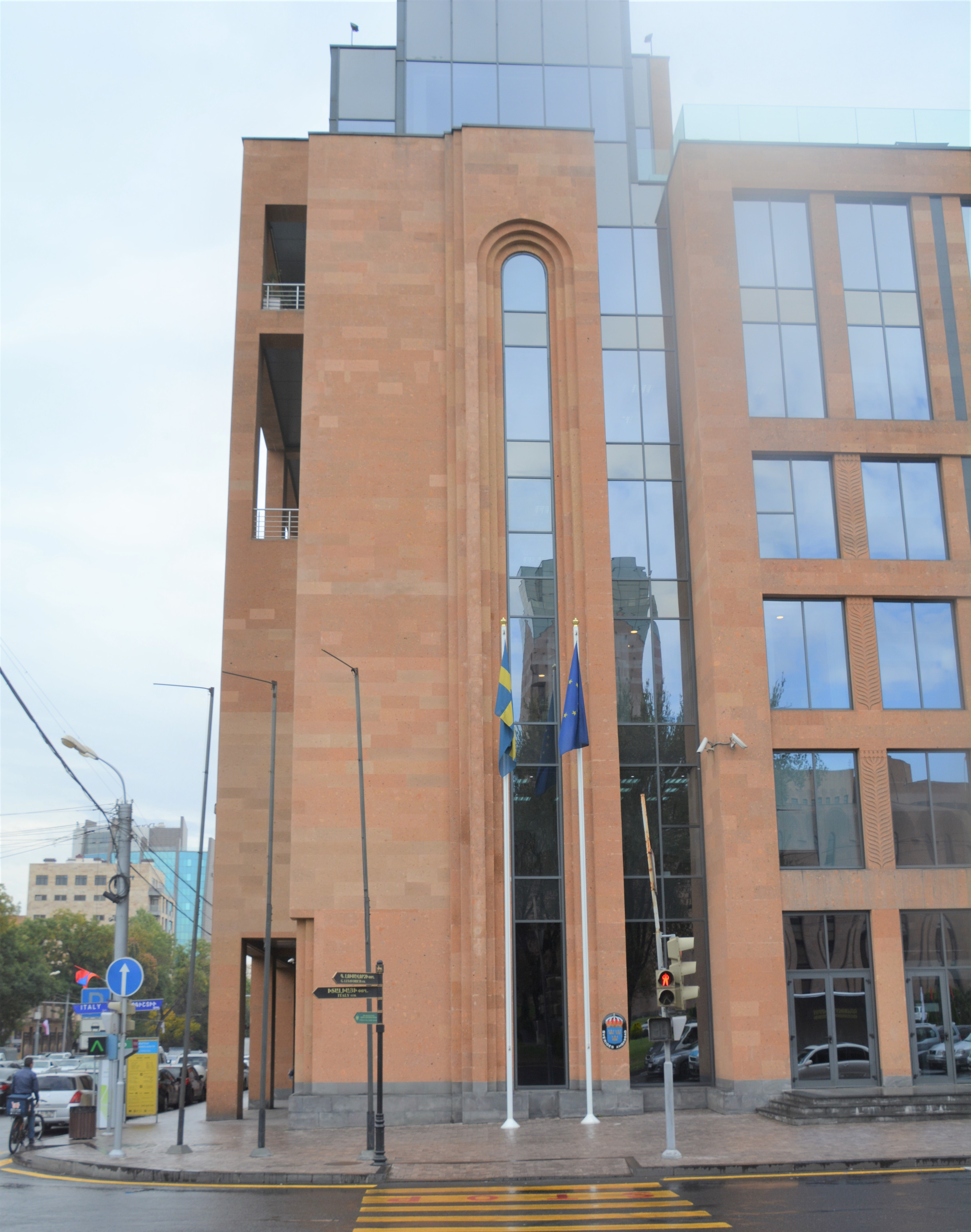 Swedish Embassy in Jerevan, Armenia